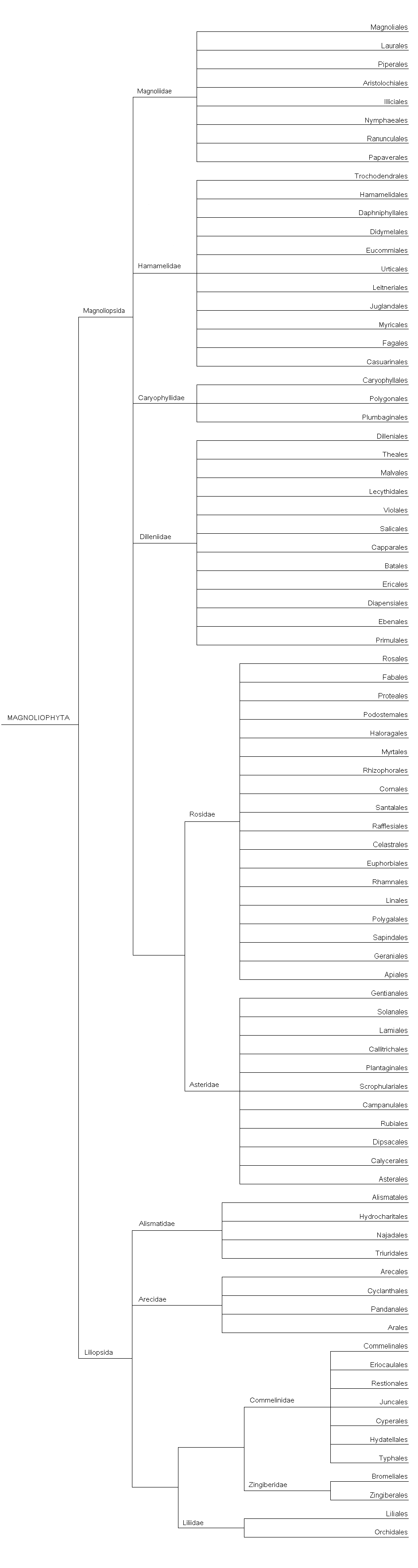 Orders tree of flowering plants according to Cronquist System.